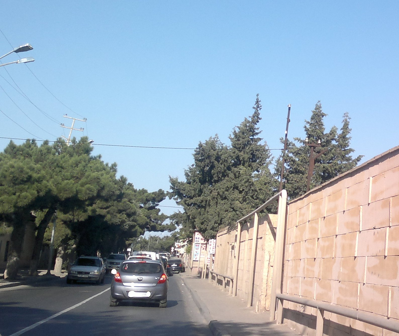 Yesenin Street in Mardakan